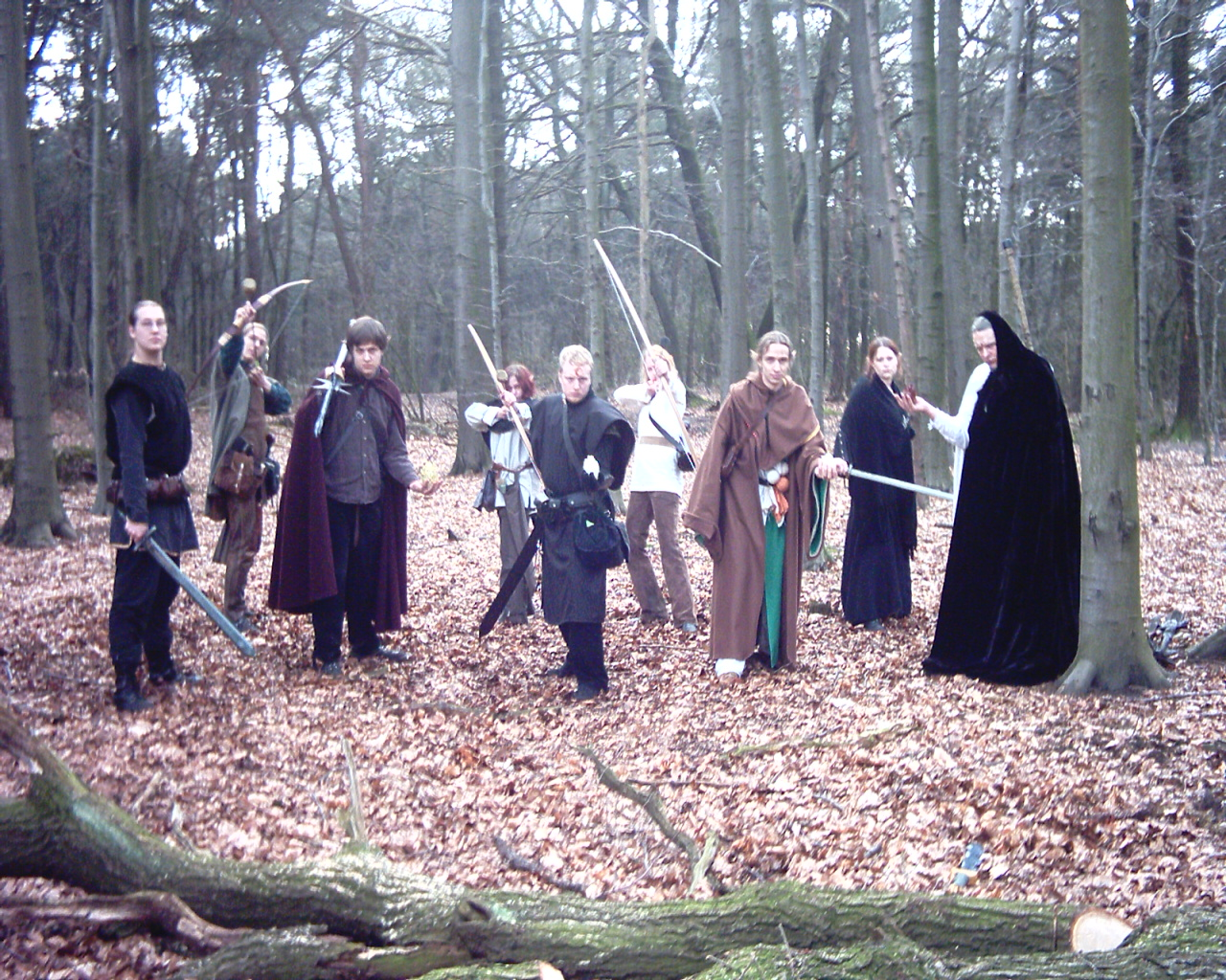 LARP: Sternenfeuer group from Germany Recorded at a meeting of the group of the Sternenfeuer (=starfire) banner.